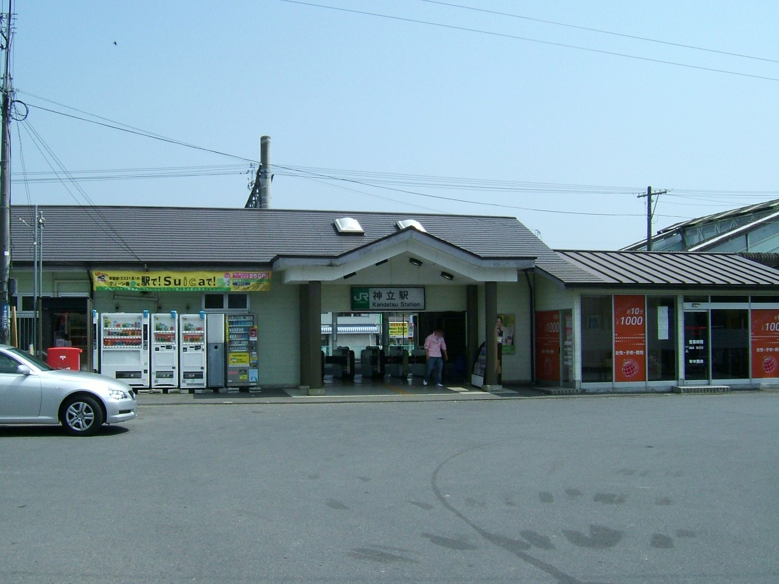 The building of Kandatsu Station, East Japan Railway Jōban Line